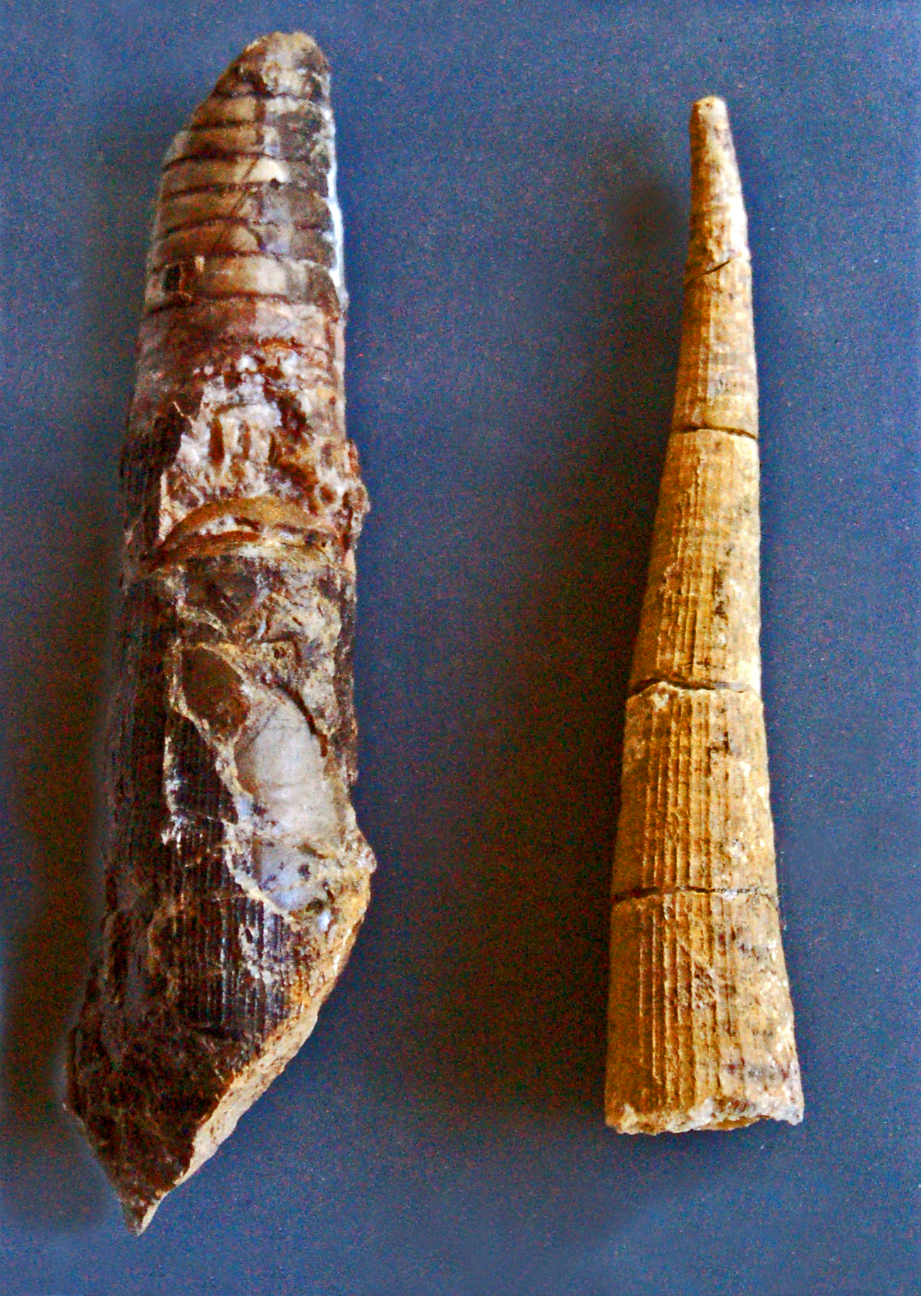 Kionoceras doricum from Czech Republic at the National Museum (Prague)